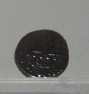 Silver dirham of Shavir bin Fazl Shaddadid